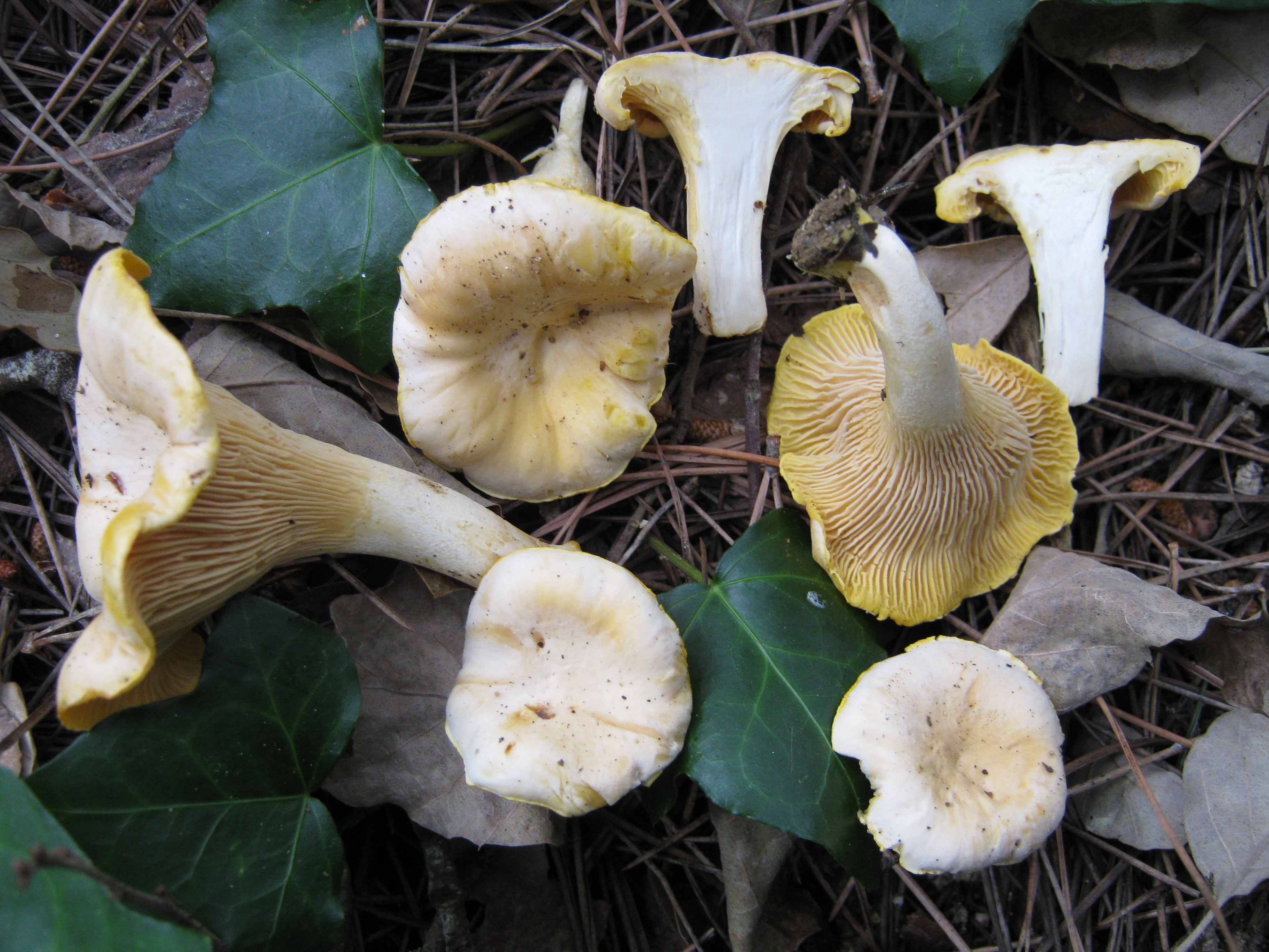 Cantharellus pallens Location: Sintra, Portugal For more information about this, see the observation page at Mushroom Observer.